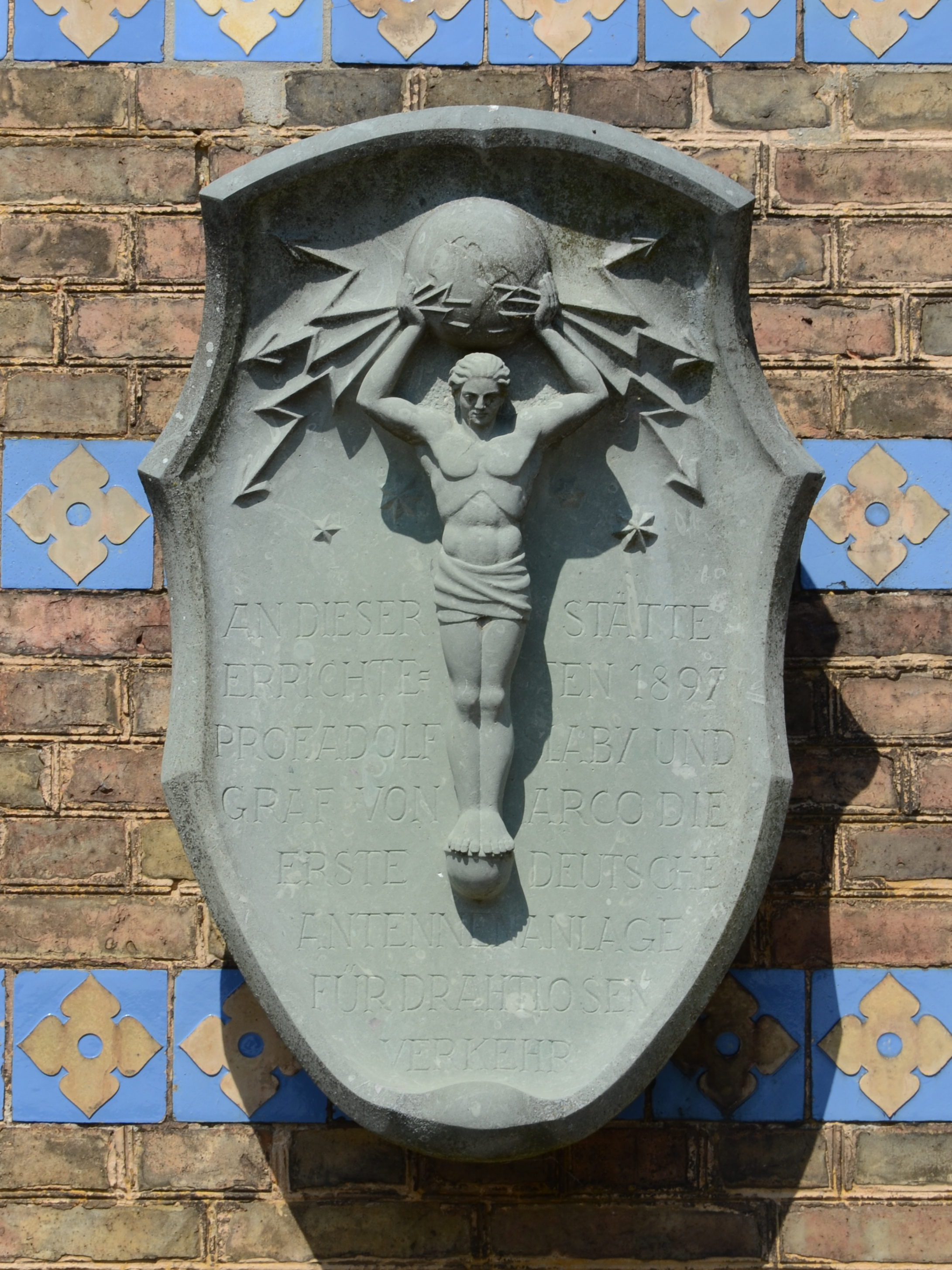 Atlas Plaque, Church of the Redeemer, Sacrow